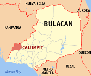 Map of Bulacan showing the location of Calumpit